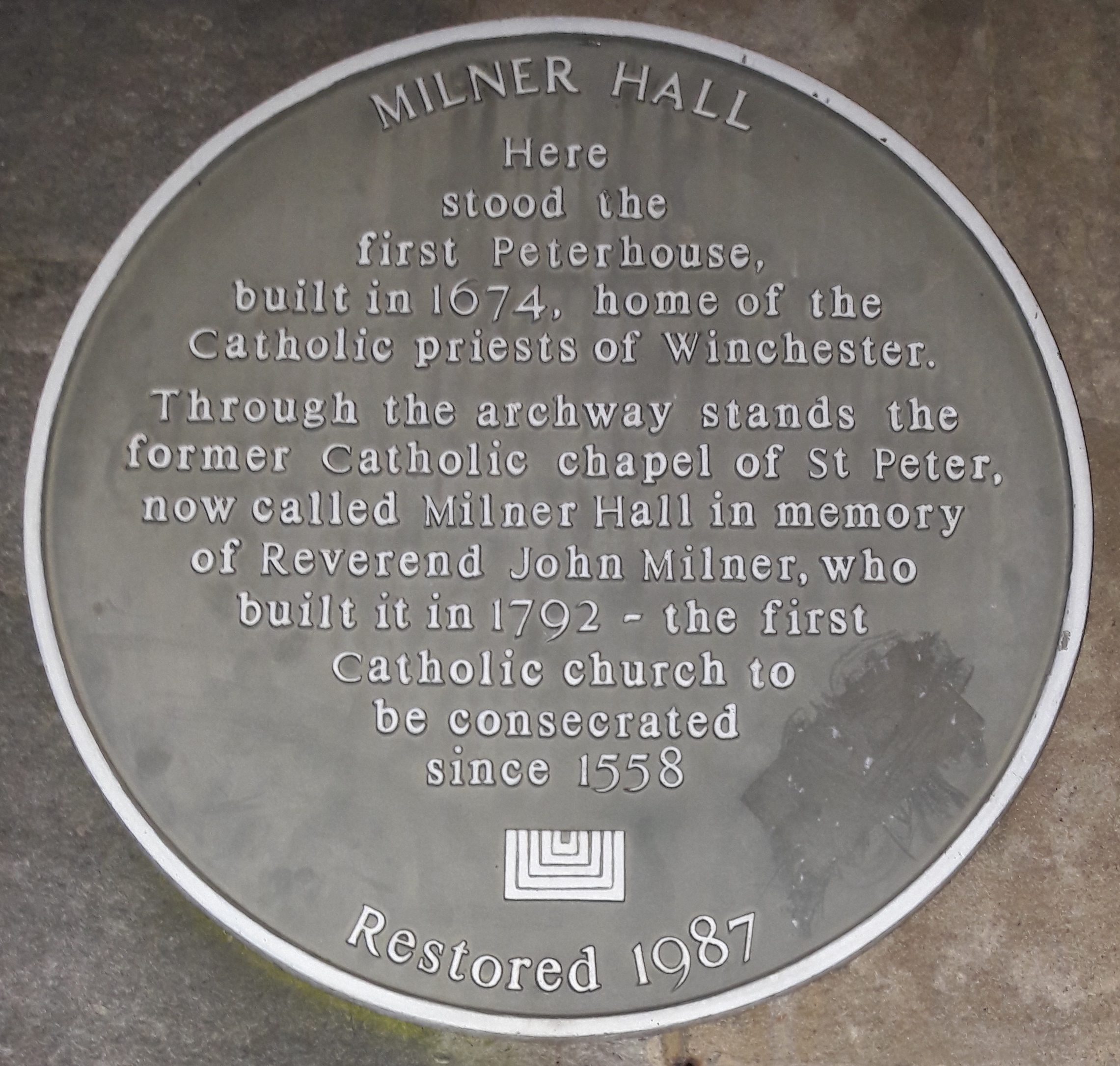 Milner Hall Catholic place of worship in Winchester, named after Bishop Milner.